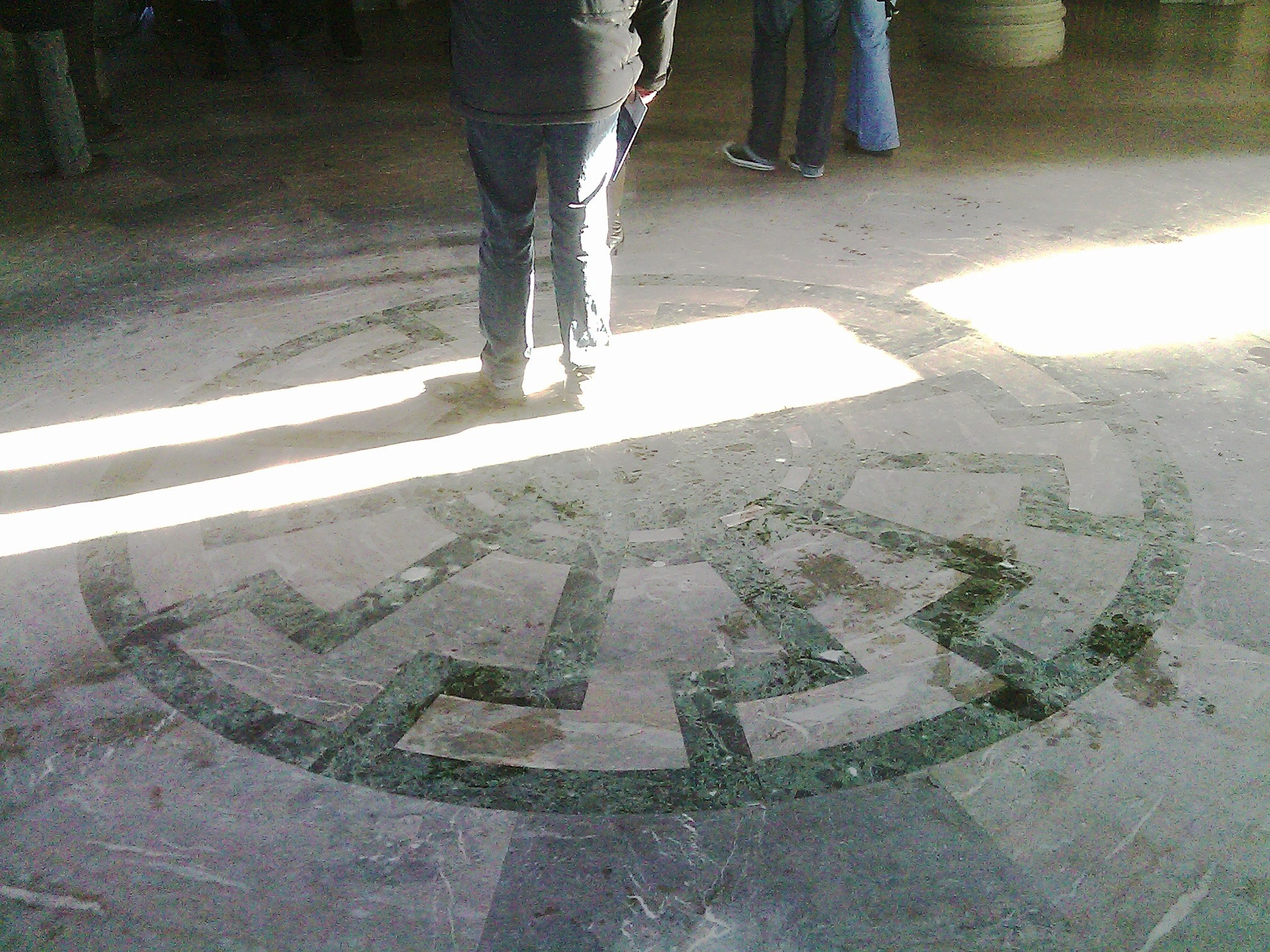 Man in cirle (black sun)